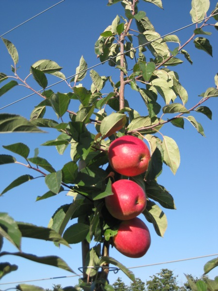 SweeTango brand apples close-up on the branches